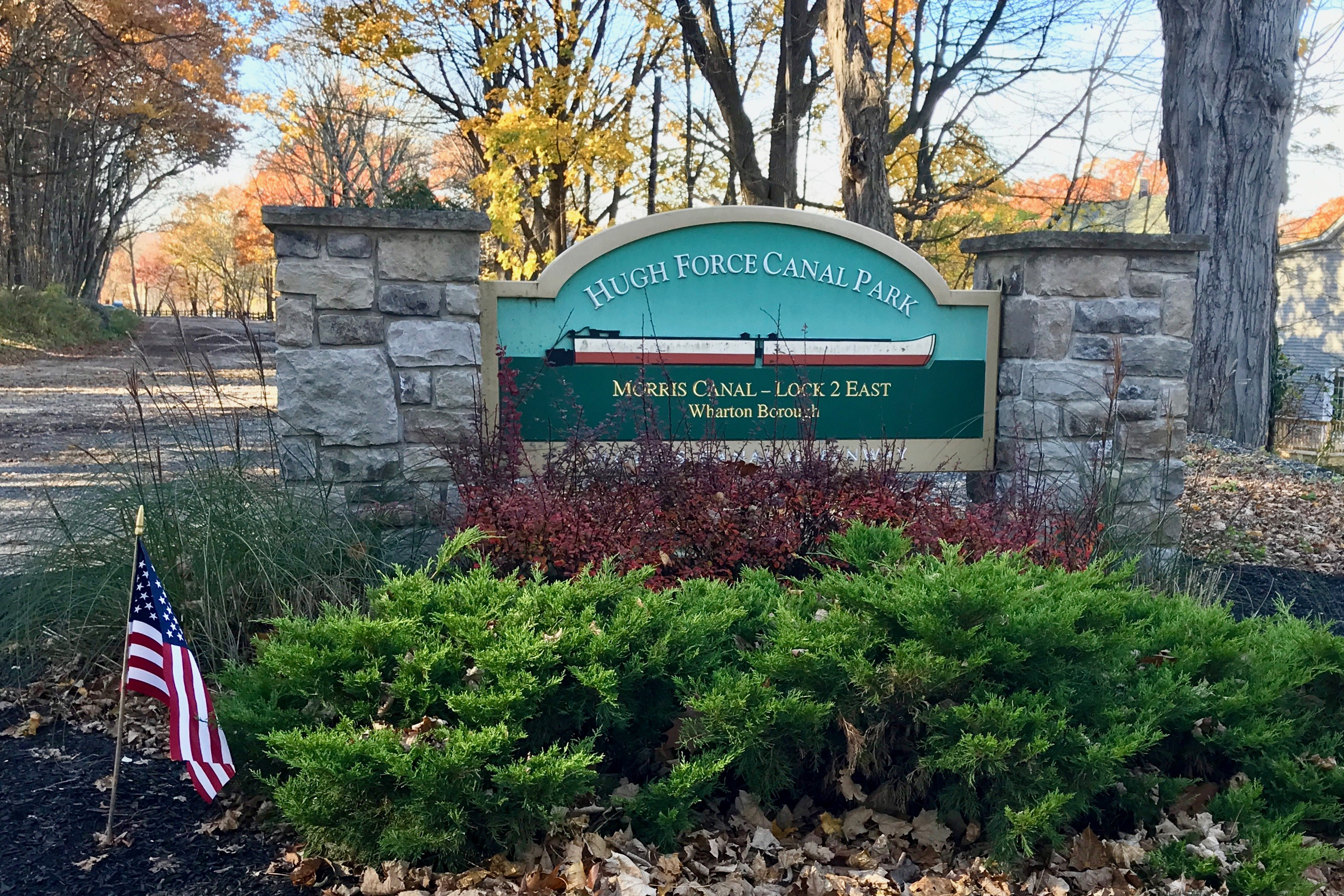 Entrance sign for the Hugh Force Canal Park in Wharton, New Jersey.